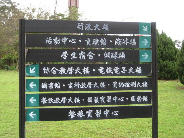 TamShui Vocational School guidepost